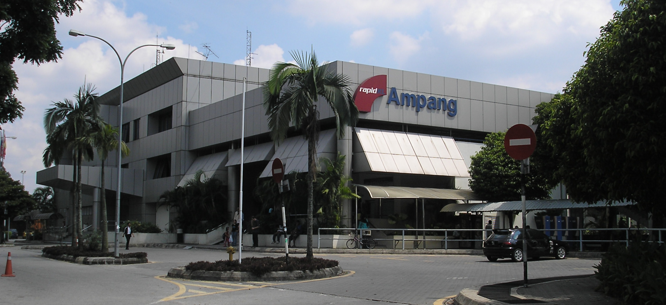 The exterior of the Ampang LRT terminal (Ampang Line), Selangor, Malaysia.